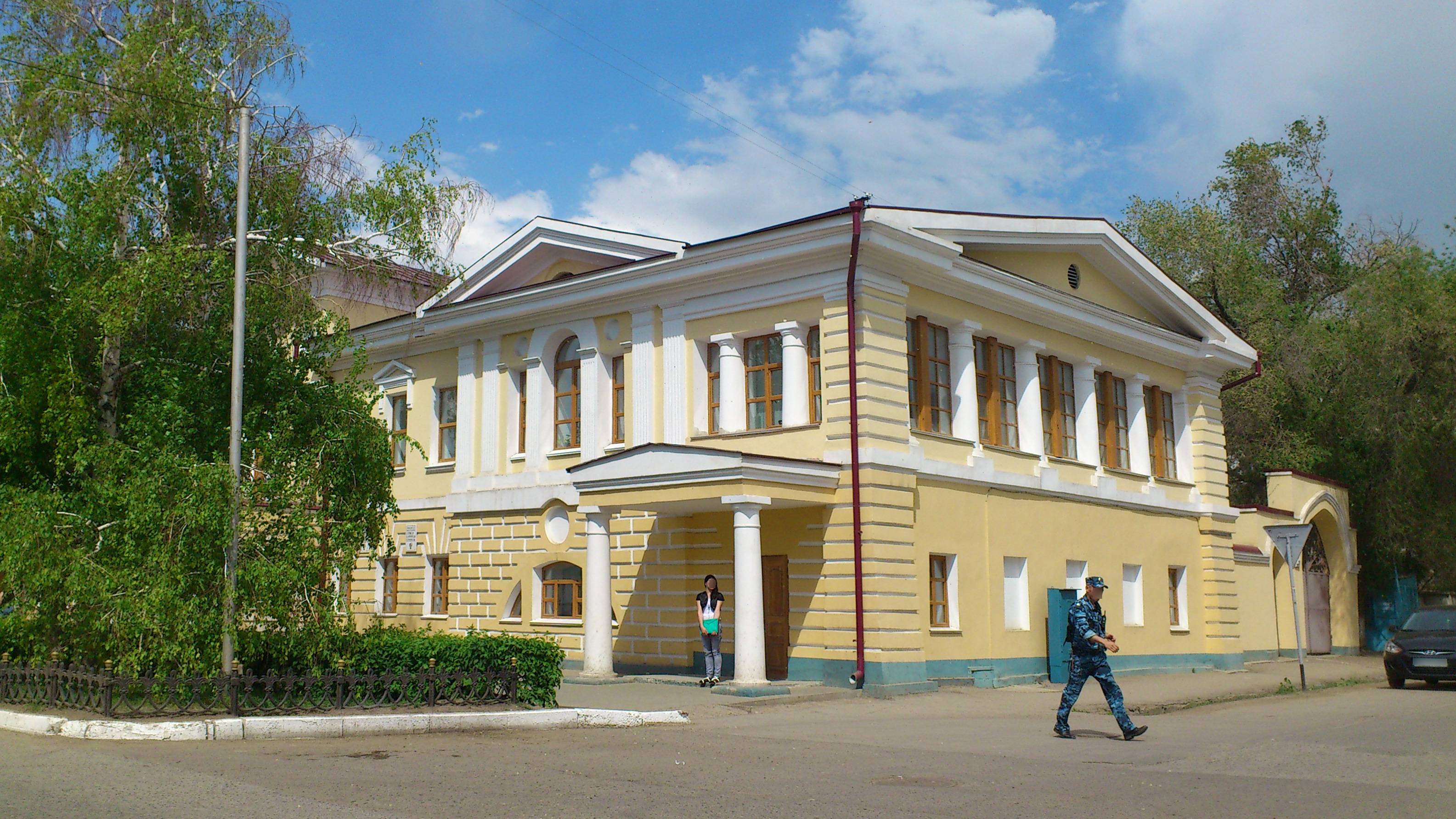 The house of General Borodin, Ataman of the Ural Cossacks (1820s, architect Michele del Medino)